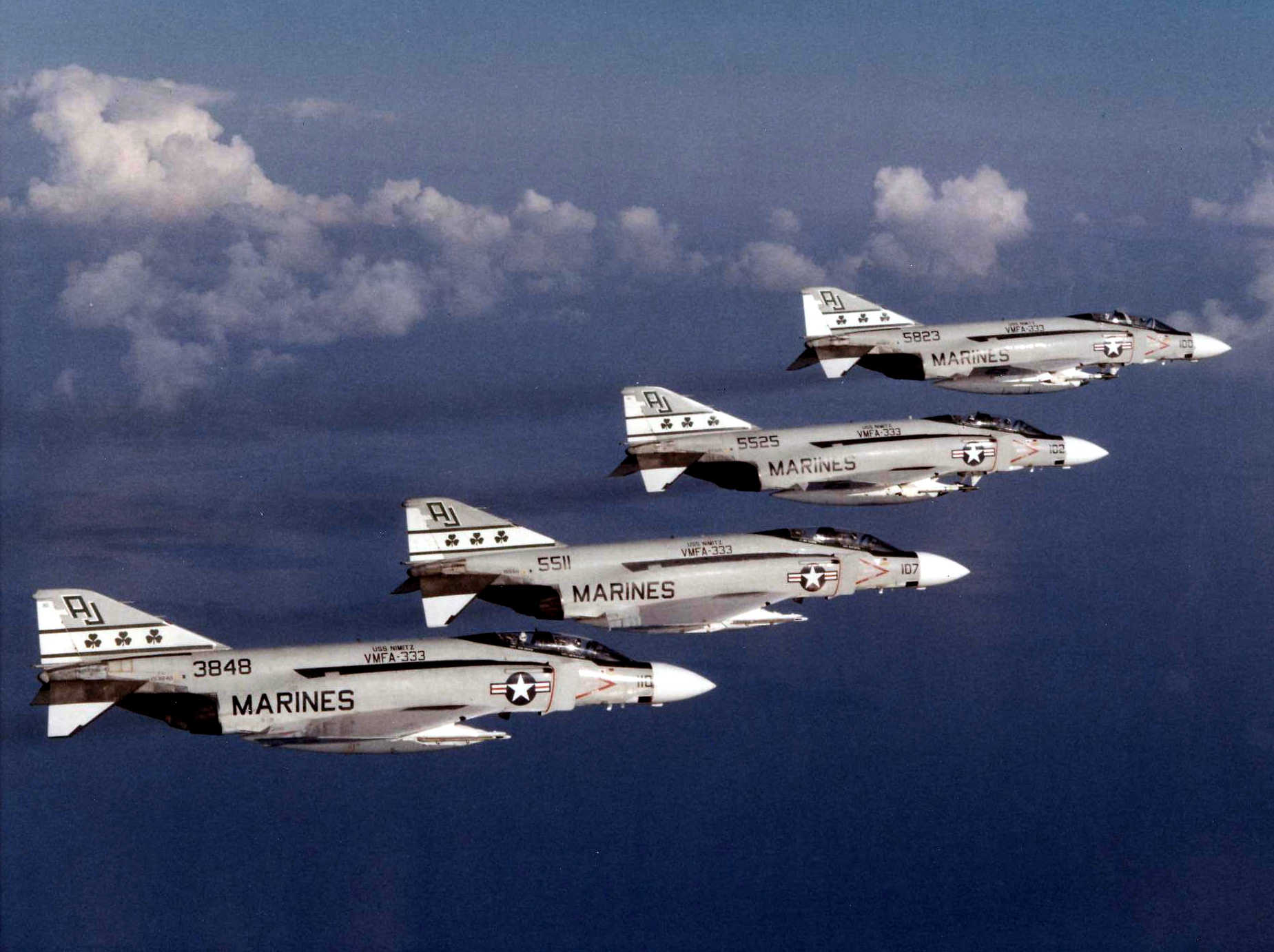 Four U.S. Marine Corps McDonnell F-4J Phantom II (BuNo 153848, 155523, 155525, 155511) from Marine Fighter Attack Squadron VMFA-333 "Shamrocks" in flight. VMFA-333 was assigned to Carrier Air Wing 8 (CVW-8) aboard the aircraft carrier USS Nimitz (CVN-68) for a deployment to the Mediterranean Sea from 7 July 1976 to 7 February 1977.